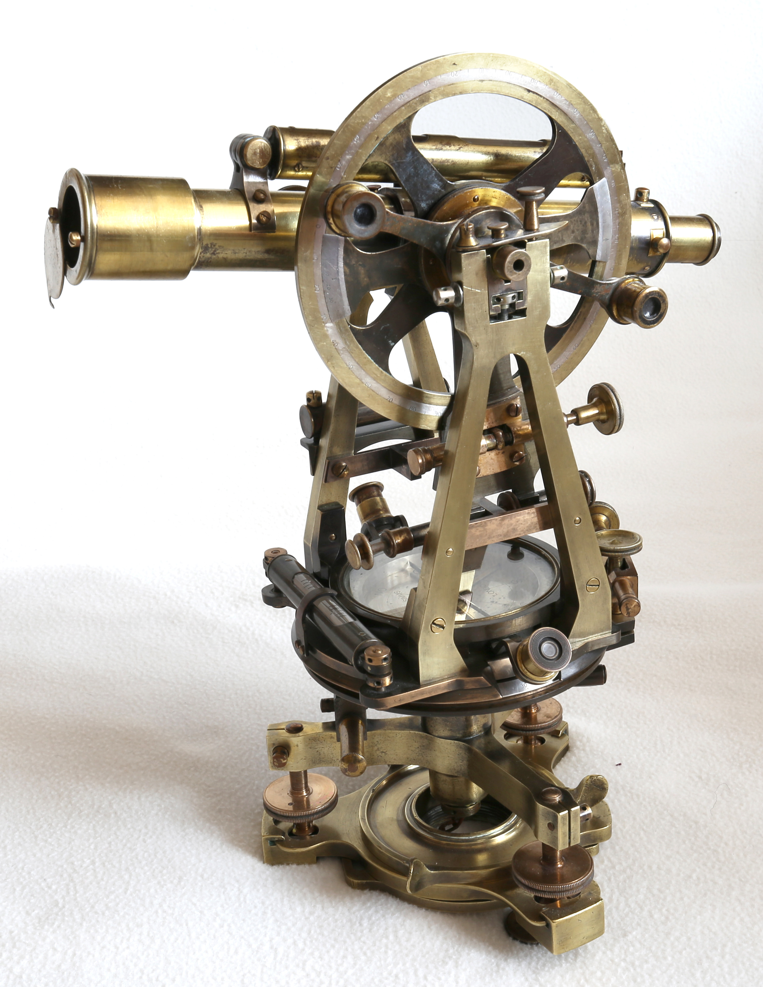 A typical Troughton & Simms 6 inch theodolite made before 1915.